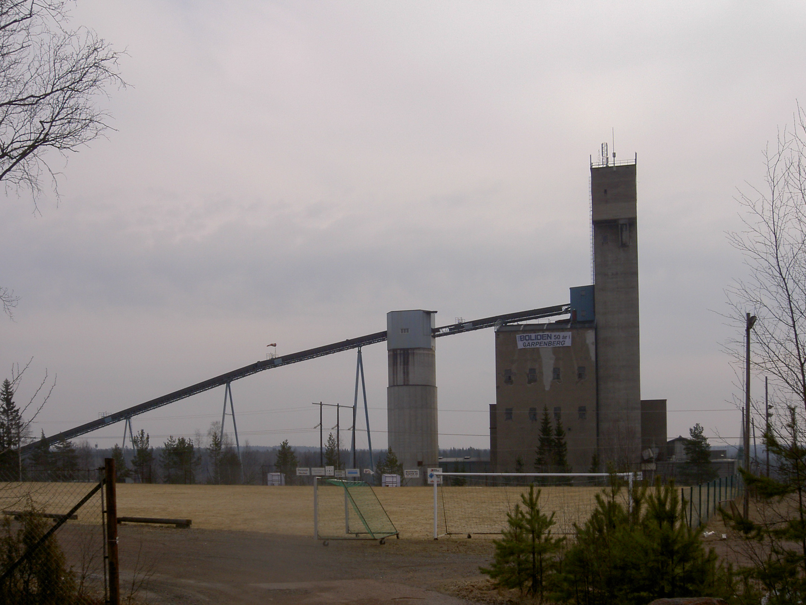 "Garpvallen" (football (soccer) field) with the tower of Garpenberg's mine in the background.